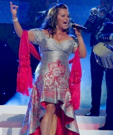 Jenni Rivera performing Ya Lo Se at the Gisbon Amitheratre